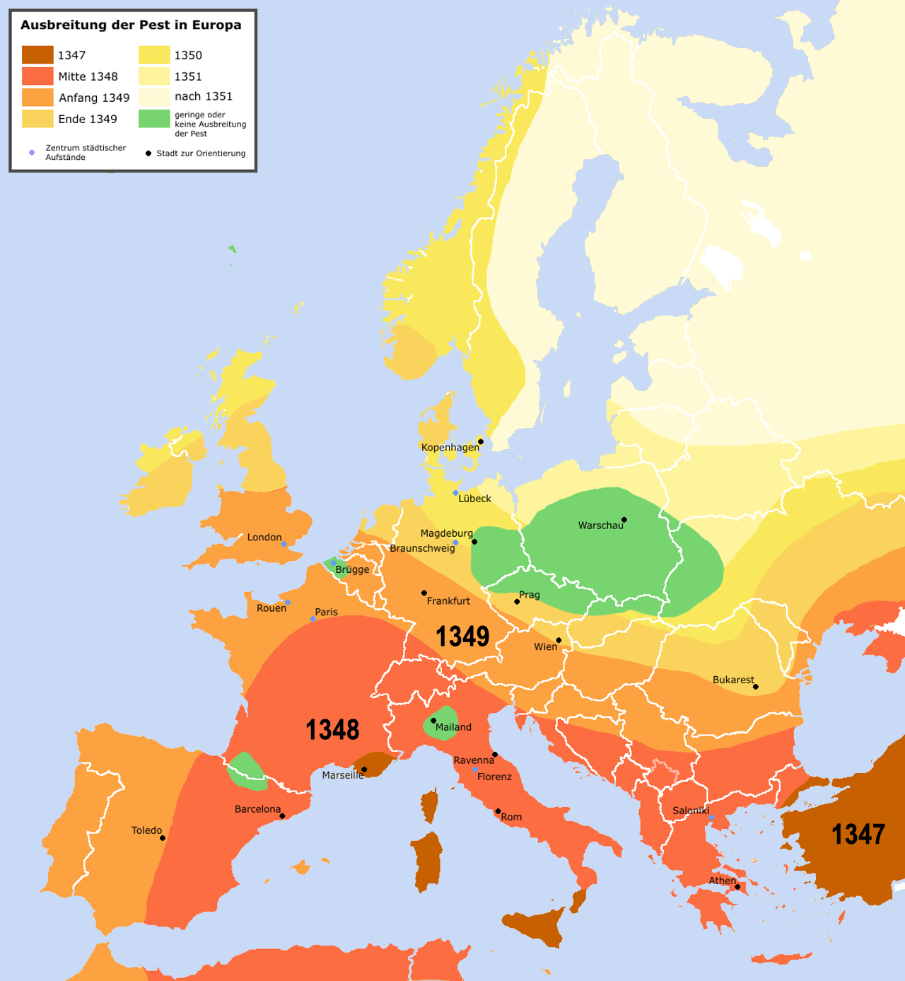 Spreading of the Black Death in Europe between 1347 and 1351, apparently copied from a work called "Atlas zur Weltgeschichte" (perhaps dtv-Atlas? If so, Kinder and Hilgemann (eds.), dtv-Atlas zur Weltgeschichte was published in 35(!) editions between 1964 and 2002, and it would be crucial to know which edition we are basing this on). The details of the map are to be taken with a large grain of salt. It is roughly compatible with this Britannica map (copy, dated 1994), but the details vary significantly. Other significant differences exist with this map (an unreferenced scan of a professional publication), where e.g. the area of Poland/Silesia marked "unaffected" in this map is part of a much larger area marked as "Area for which there is insufficient information". Here is another map with a somewhat more conservative epistemology, referenced to " ", where it was posted in 2000 (and therefore uninfluenced by the 2005 upload of this map). An academically published map for comparison: [1] cited to: D. Sherman and J. Salisbury, The West in the World: Volume I to 1715. McGraw-Hill, Boston, 3rd edition (2008), not necessarily better than the Britannica map, as it is a rough sketched used for the purposes of some argument about network theory, and not a medievalist publication dedicated to the history of the Black Death as such.